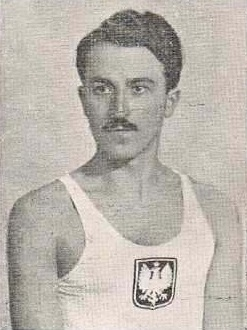 Polish medium distance runner Kazimierz Kucharski.